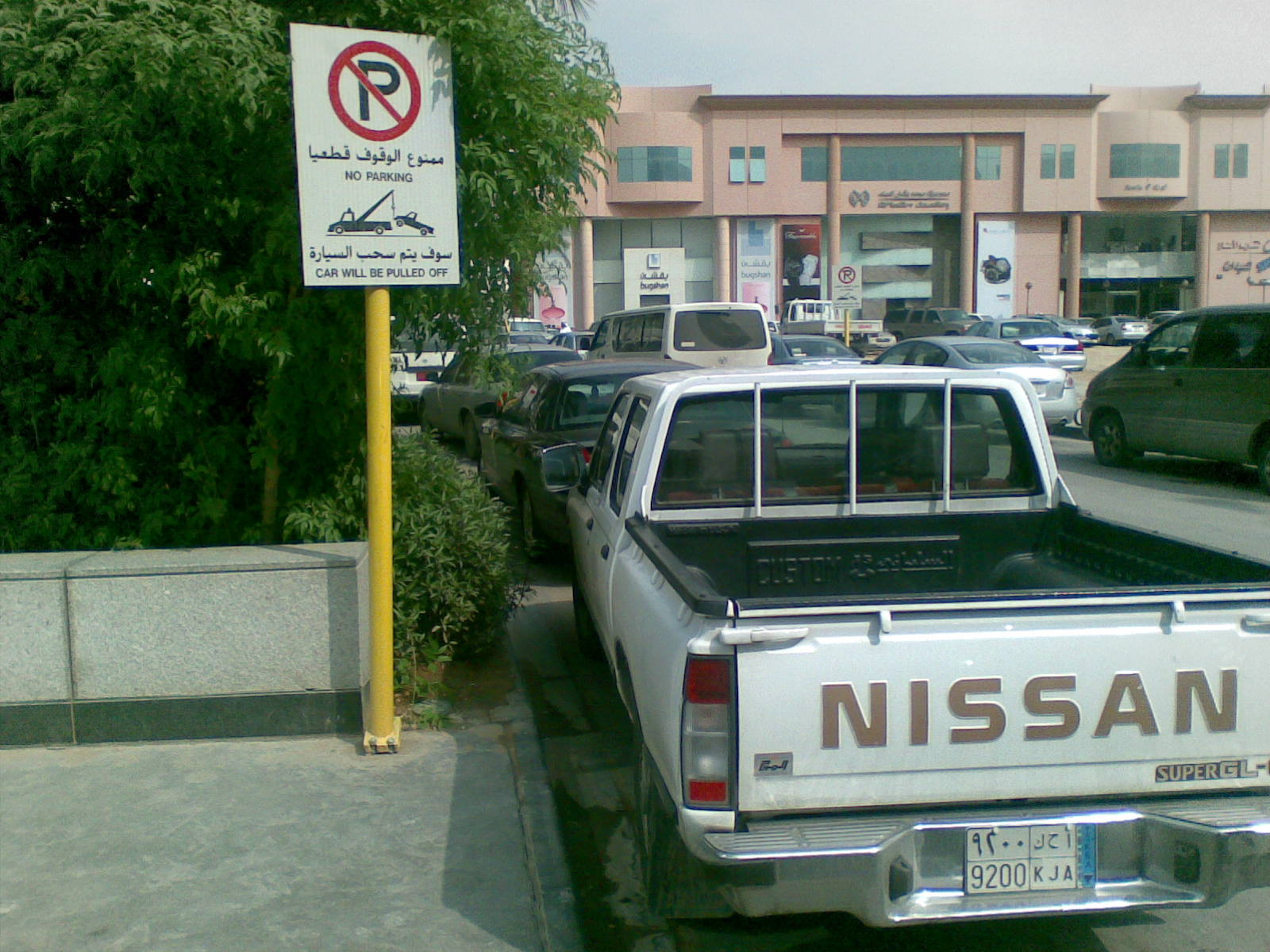 I walk by this street daily, and clearly these signs are taken as seriously as the road rules.